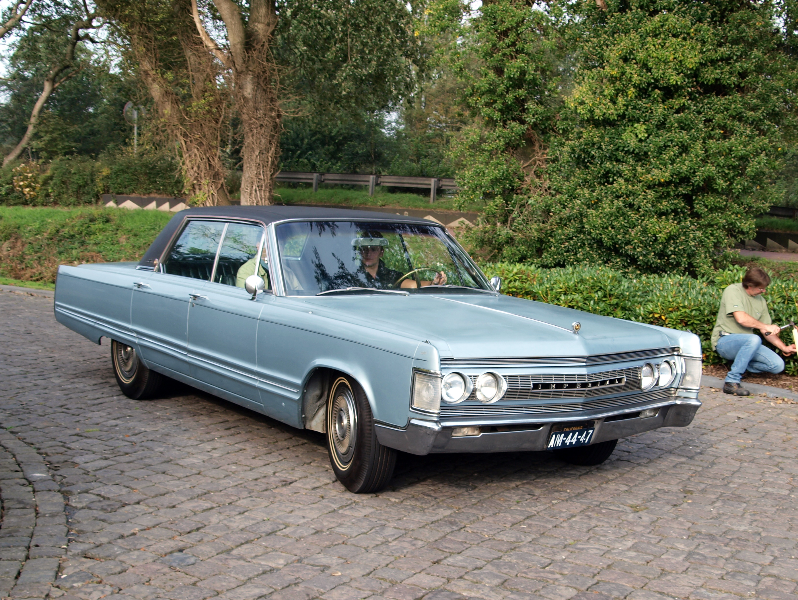 1967 Imperial Le Baron, often mistakenly referred to as a "Chrysler Imperial Le Baron". Photographed at the premmesis of the Louwman museum, The Hague, The Netherlands. OLYMPUS DIGITAL CAMERA